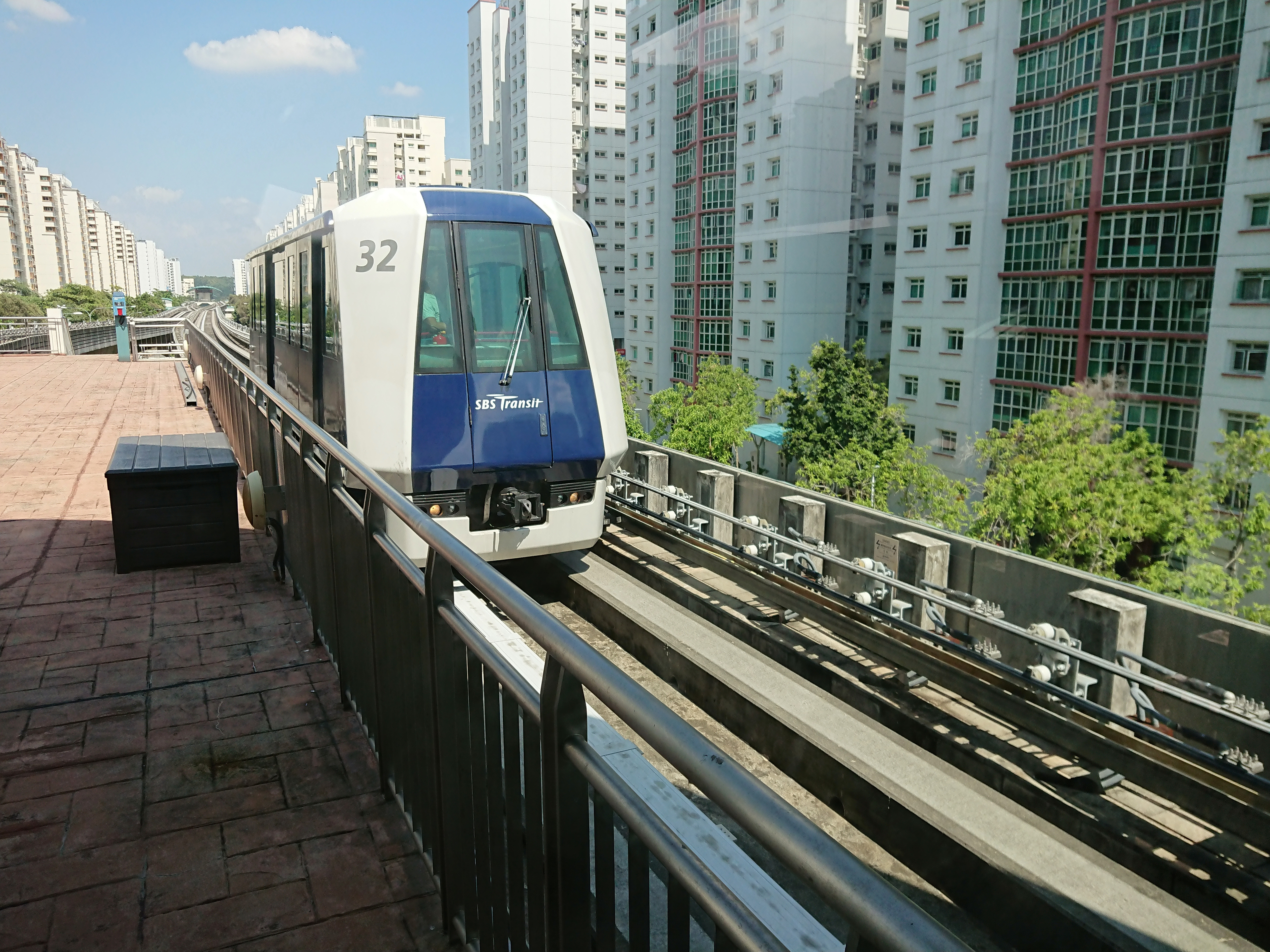 Mitsubishi Crystal Mover pulling into Cove LRT station on the East loop of the Punggol LRT line